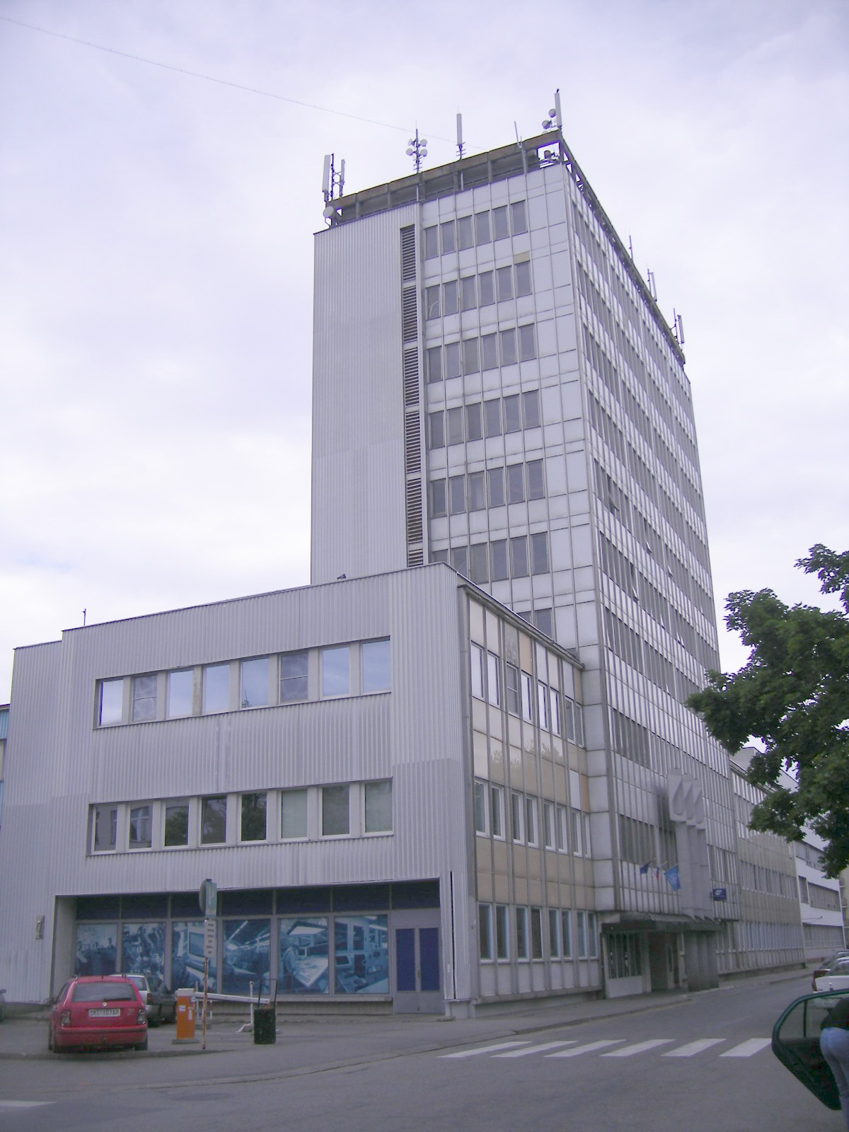 Martin - Neografia